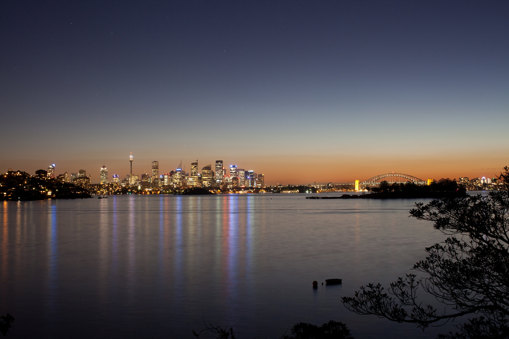 Sydney central business district